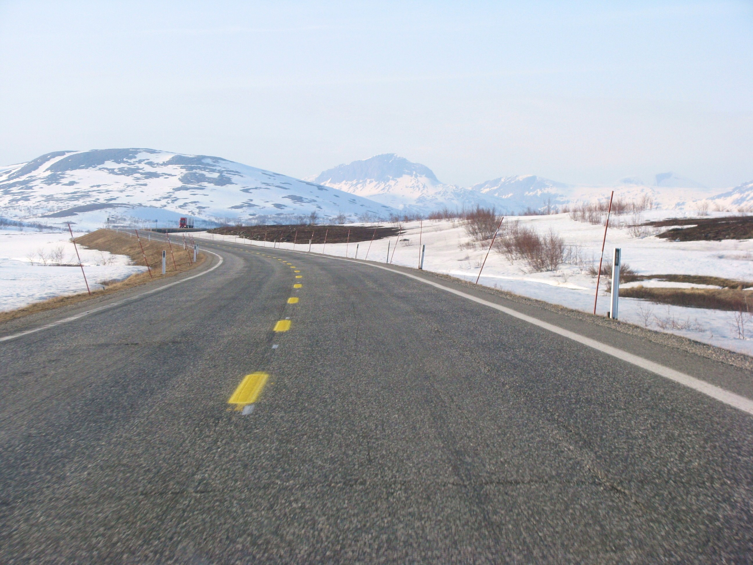 Driving E6 road, Saltfjell mountain plateau, view towards north. May 2011, Nordland, Norway. This is a few km inside the Arctic Circle, and about 600 meter above sea level.